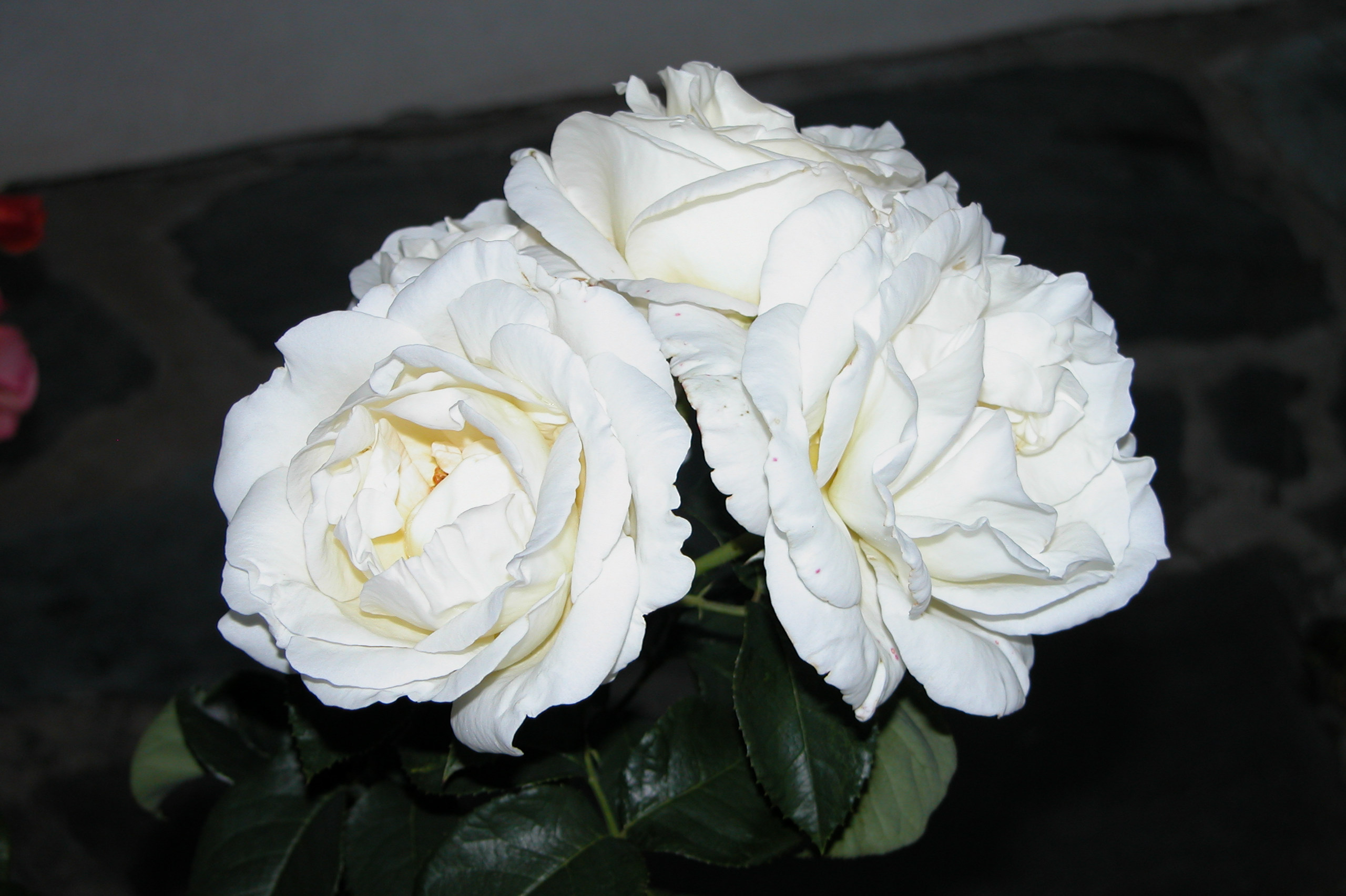 a bunch of white roses in the evening